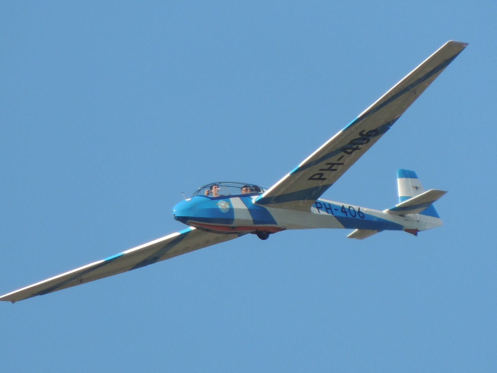 Fly to live, live to fly